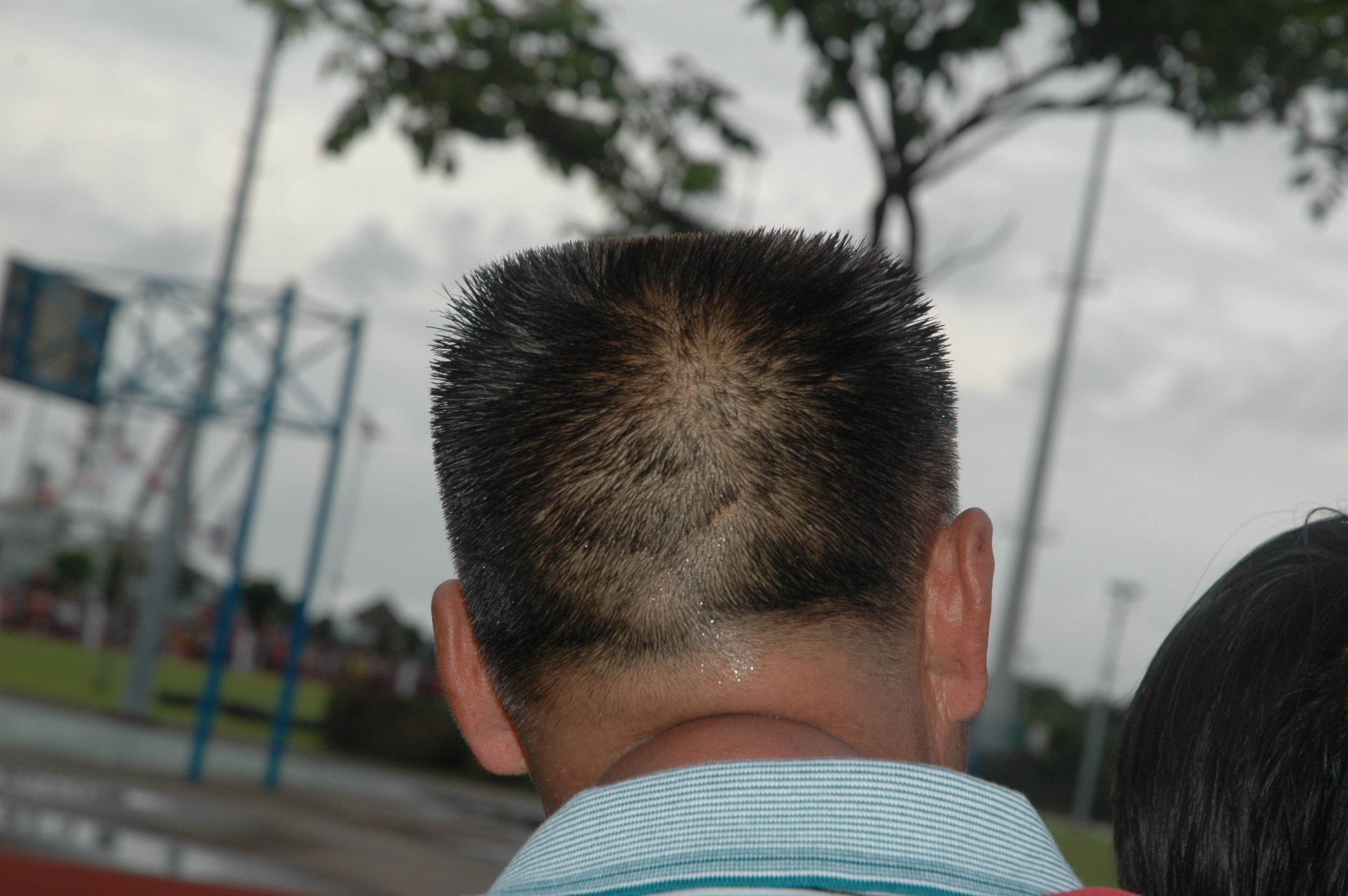 中國大陸男子間常見之方形平頭裝髮型 Rectanglar flattop hairstyle usually seen within gentlemen in mainland China